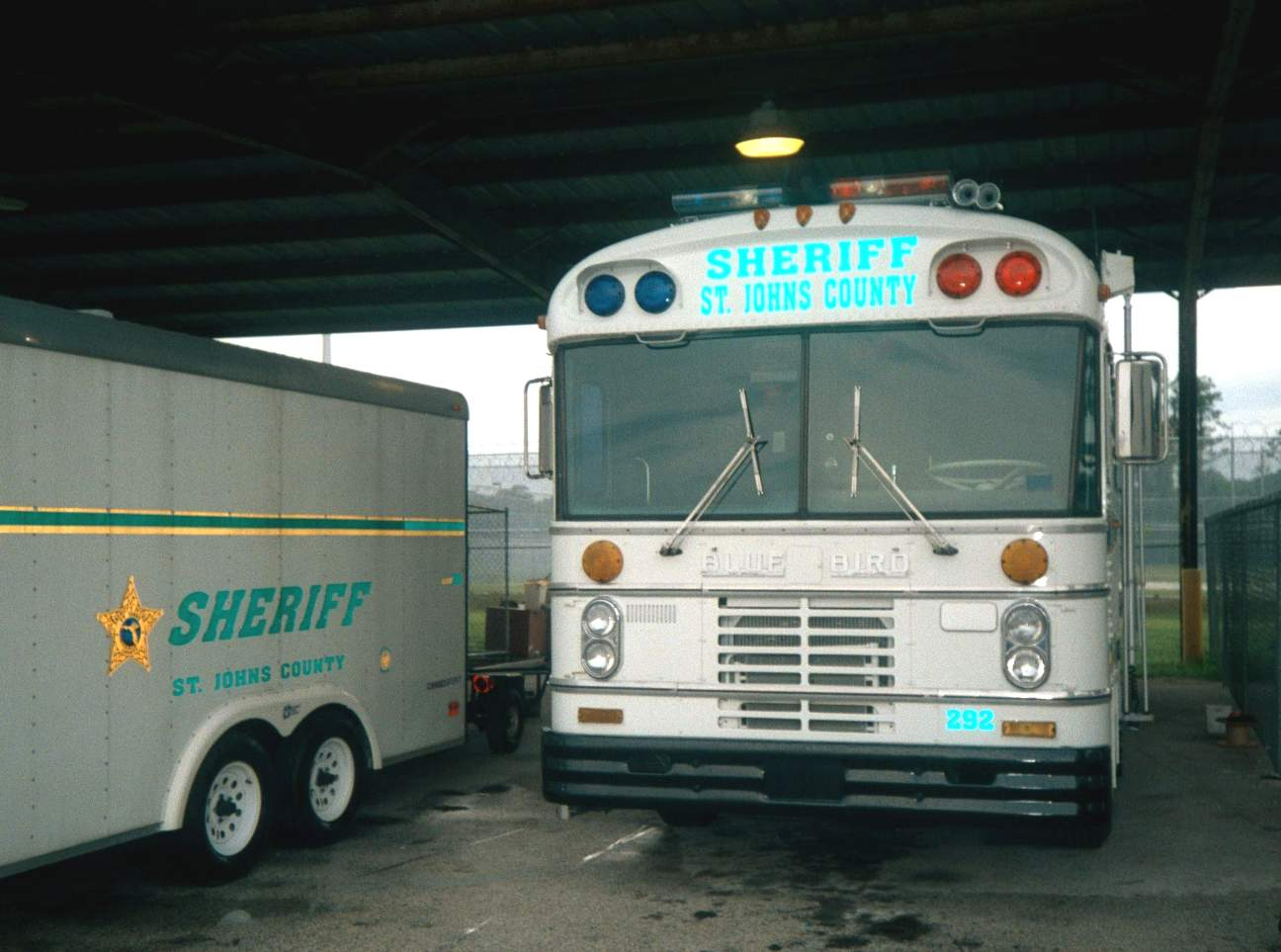 some more photos from my 2001 vacation in Florida